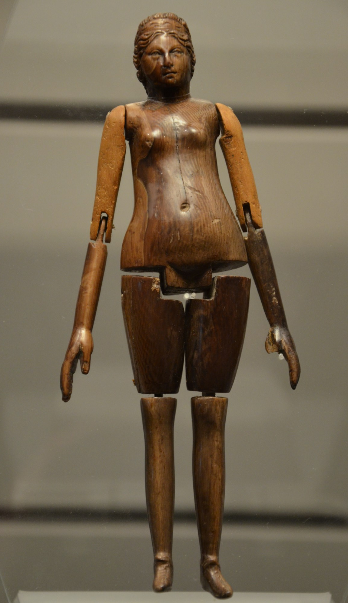 Roman ivory doll from the mid-2nd century AD, from the 'Grottarossa Mummy' sarcophagus, Palazzo Massimo alle Terme, Rome